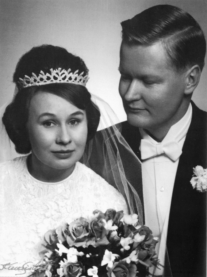 Wedding photograph of Kaisu and Matti Tuloisela.